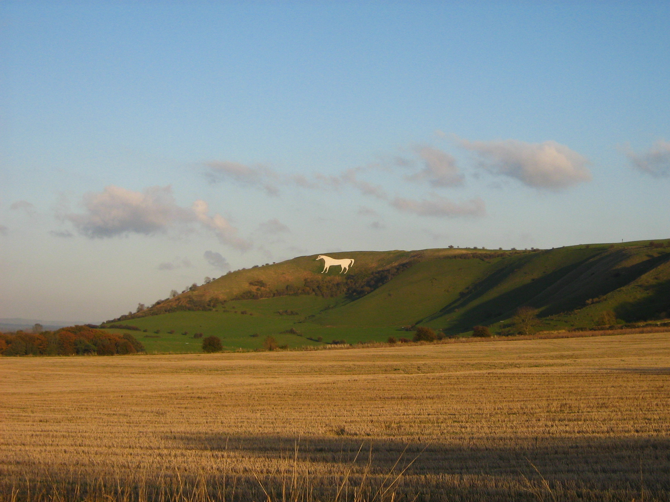 An autumnal shot of the Westbury white horse, showing a broad view of the scenery surrounding the site. Visible are some of the hills at the northern fringes of Salisbury plain.